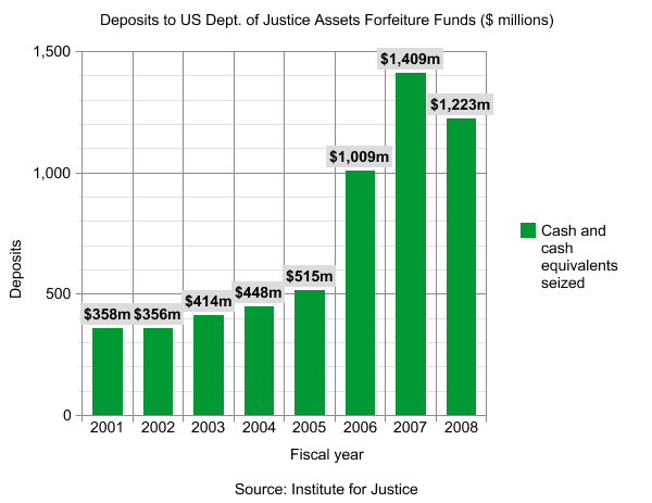 Deposits to the United States Department of Justice's Assets Forfeiture Fund, of cash and cash equivalents, in millions of US dollars, from the fiscal years 2001 through 2008. There were additional seizures of property (not listed on this chart). The chart shows that from 2006 to 2008, currency deposits alone exceeded $1 billion for each year. Source: the Institute for Justice (based on data from US Justice and Treasury departments)